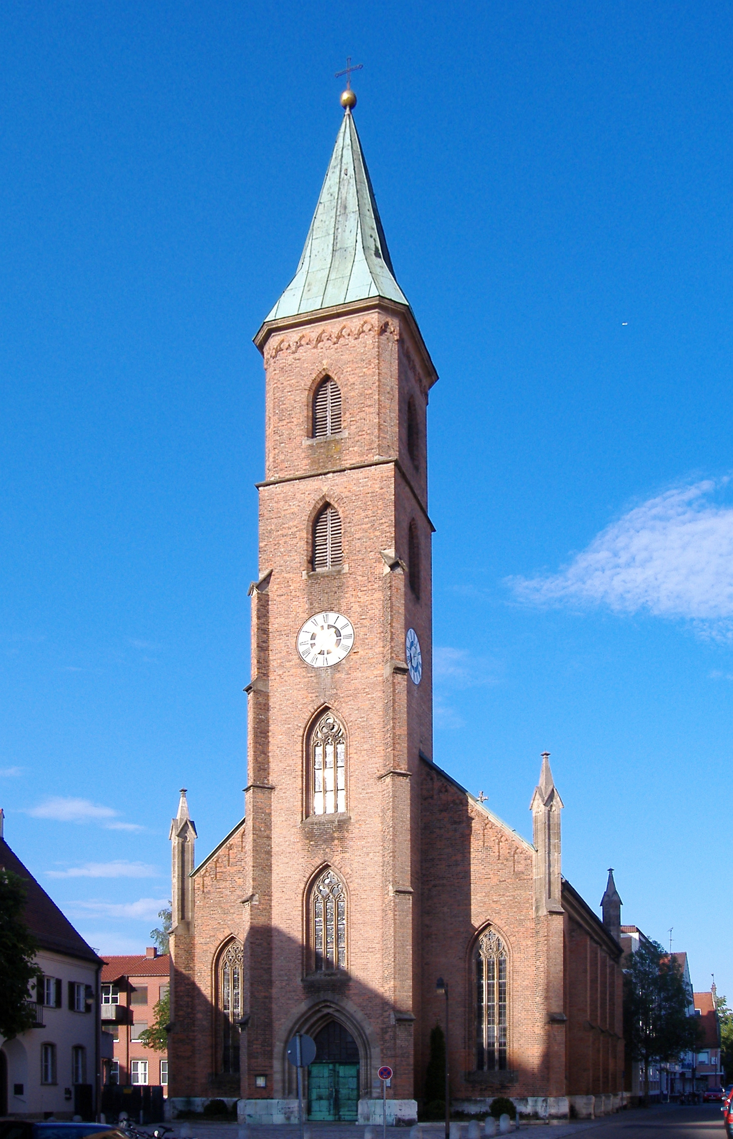 Ingolstadt, Lutheran Church of St Matthew.